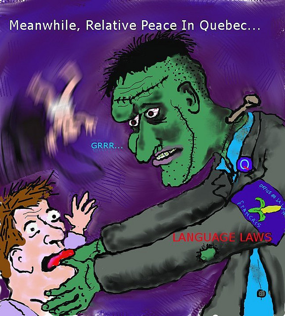 Iron-willed Parti Quebecois separatist leader Pauline Marois promised to crackdown to preserve 'relative' linguistic peace in the province. She said the PQ are back, rigid in their new ideas such as forcing 'evil' child-care centers to conform to Bill 101. Young children will be as terrified as their parents. Is this scary or what? She told the news services that some "electroshocks" are needed. She certainly should know something about electric shocks how else could the PQ bring their language monster back to life?